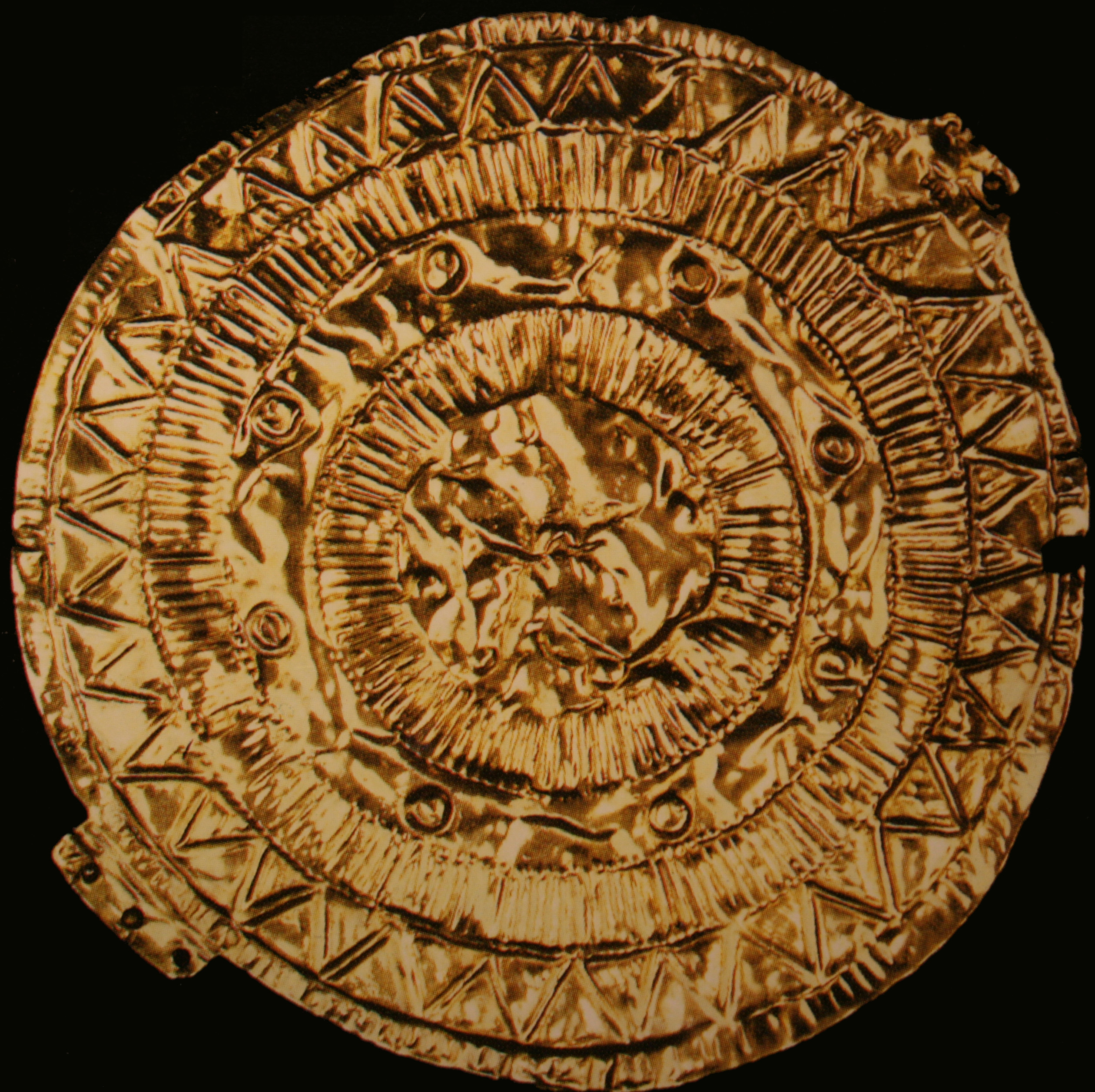 solar disk of Moordorf. Bronze Age relict